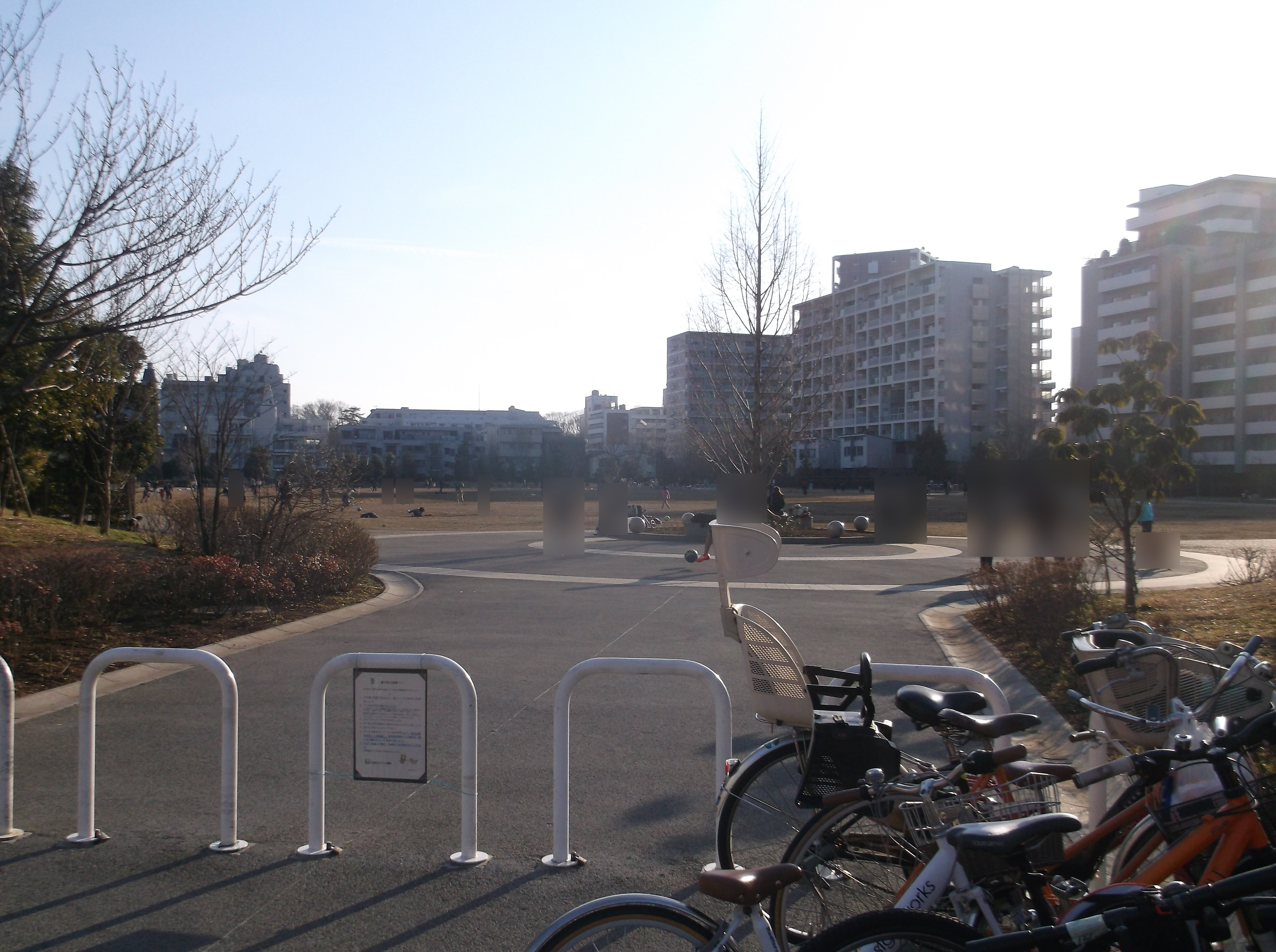 A photo of an entrance of Momoi Harappa Park,Momoi,Suginami-ku,Tokyo,Japan.